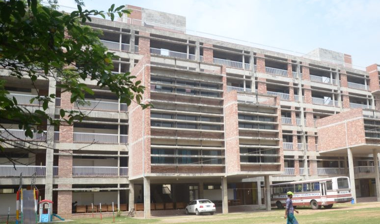 English Version Campus of Bir Shrestha Noor Mohammad Public College